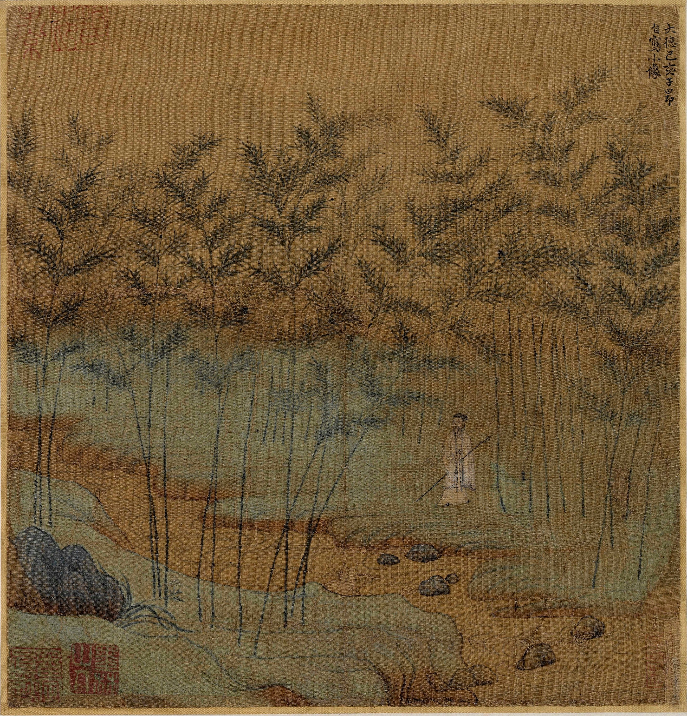 Zhao Mengfu. Self Portrait. 1299, Album leaf. Palace Museum, Beijing.